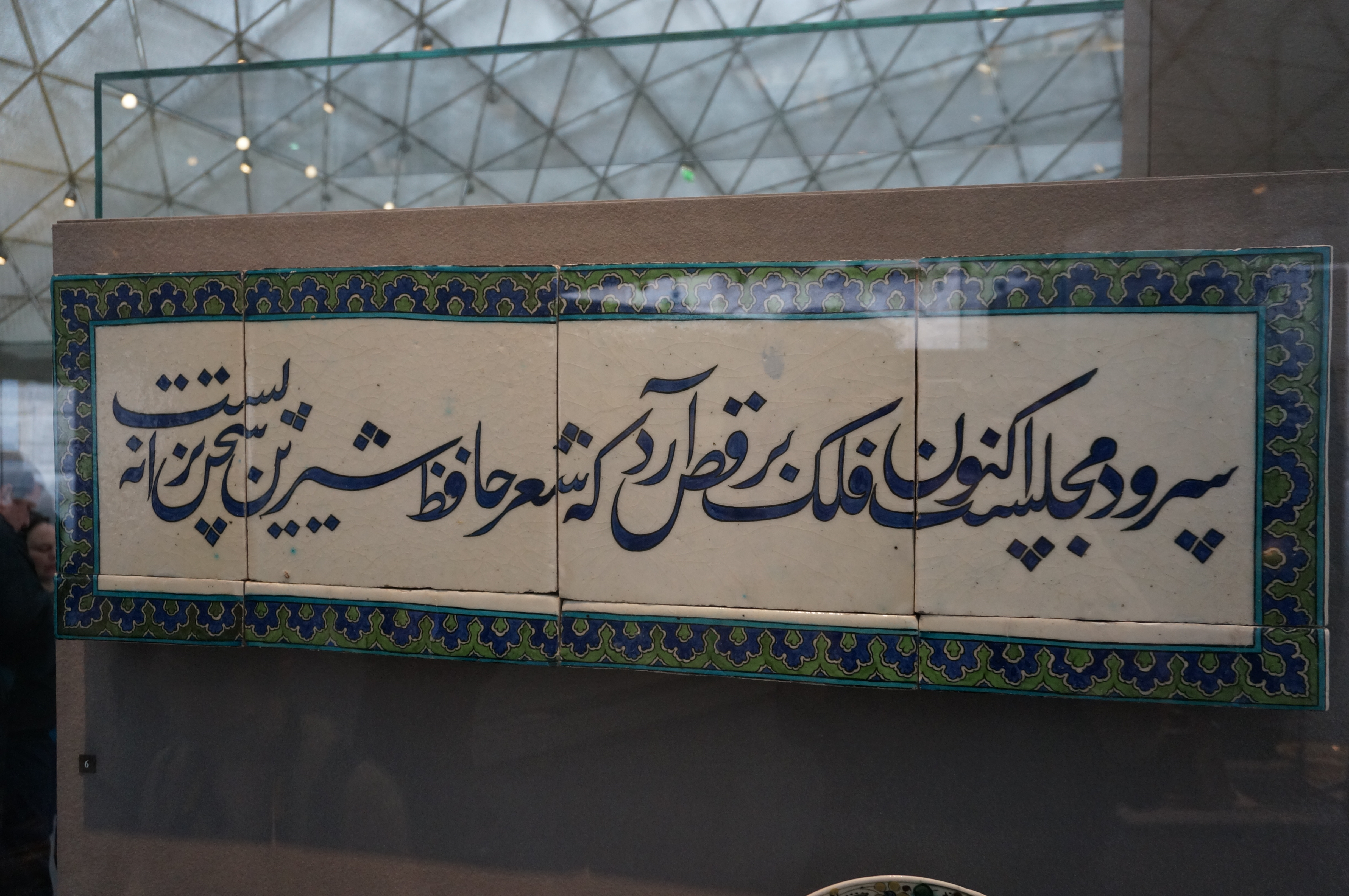 Inscribed frieze